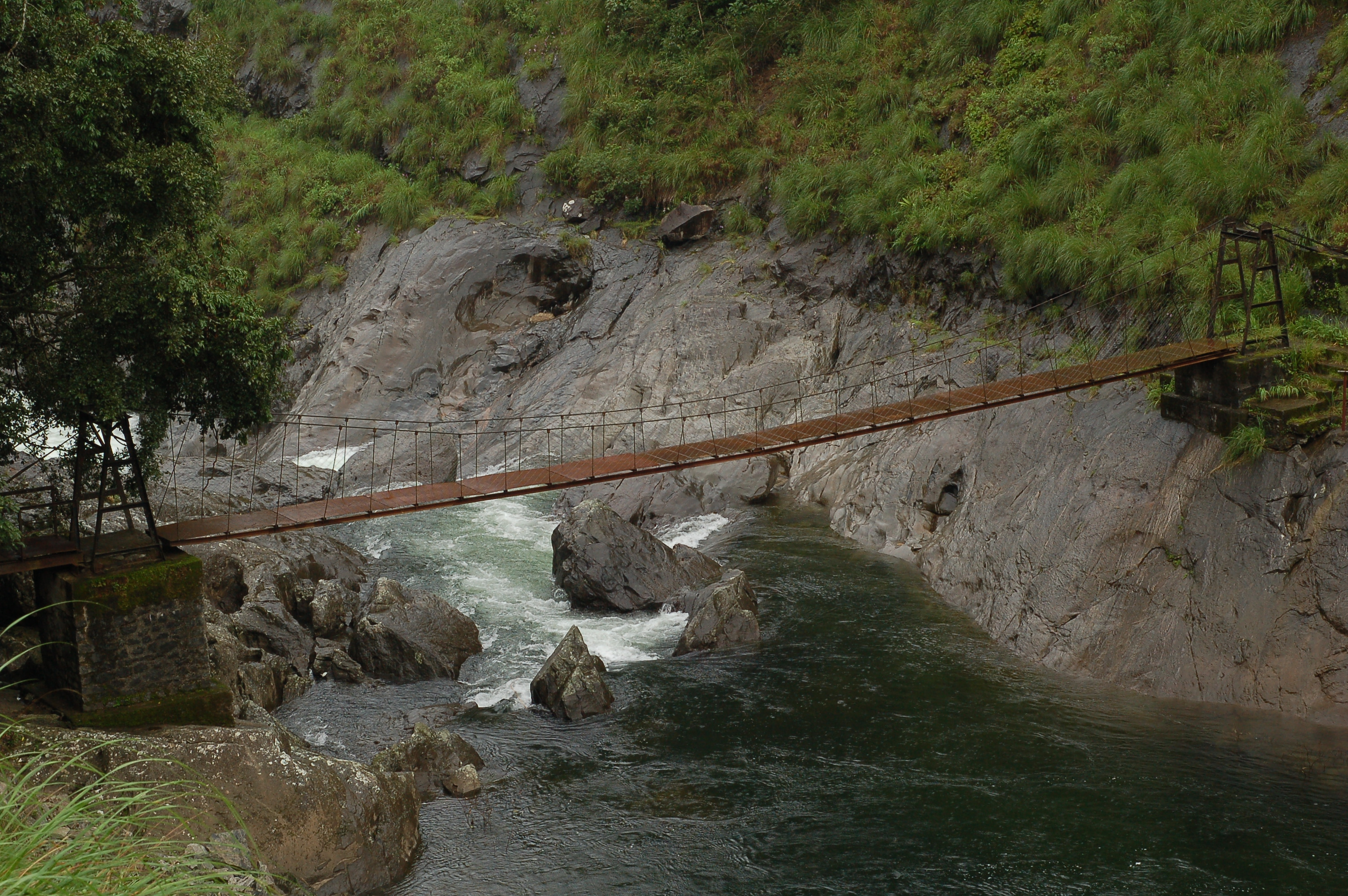 The bridge across the proposed dam site in Sairandhri, Silent Valley National Park is located in the Nilgiri Hills, Coimbatore - Palakkad districts in South India. This was built as part of the preliminary work but the project was cancelled after the strong protest from around the world and stern initiative by the Late Prime Minister of India Mrs. Indira Gandhi prevented the hydroelectric project. This park conserve’s large population of Lion-tailed macaques, an endangered species of monkey.